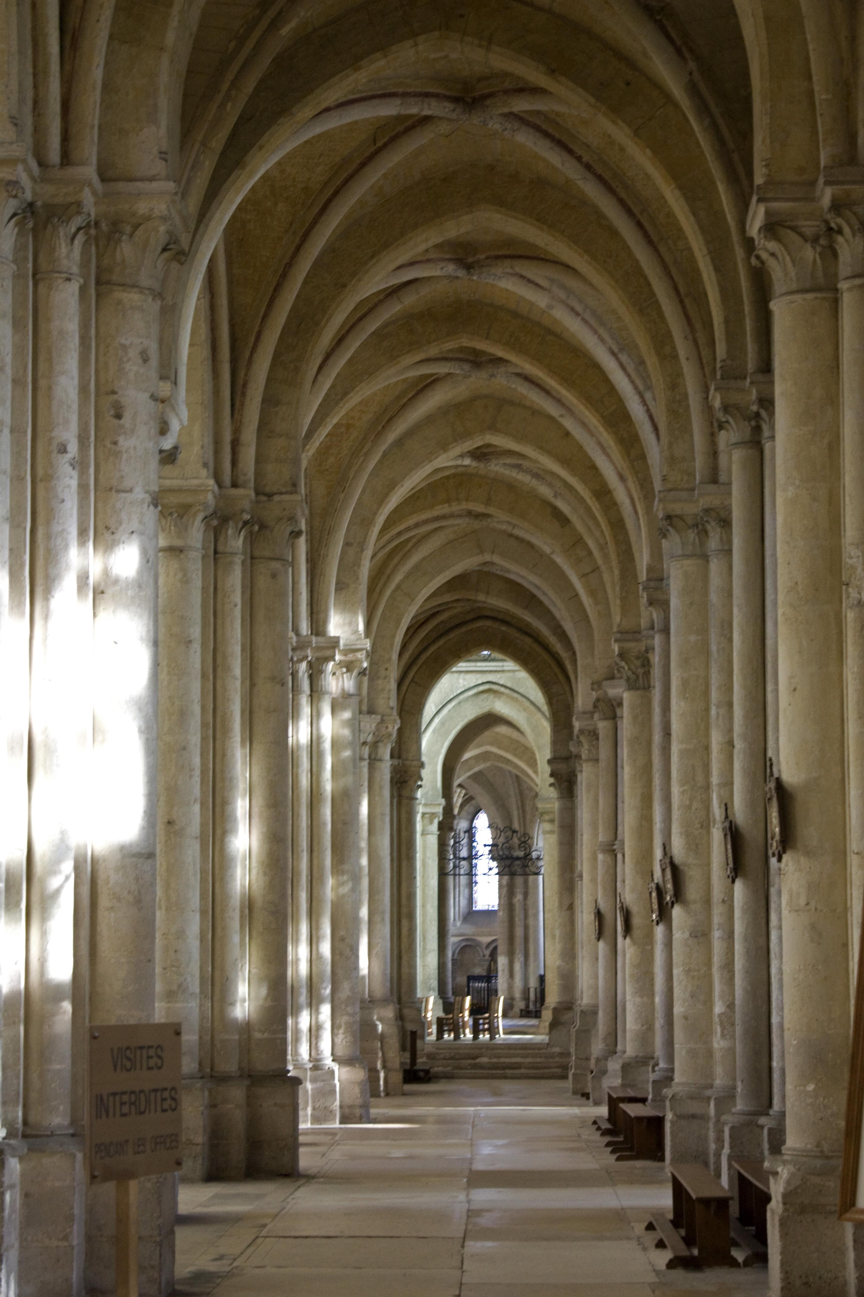 South aisle.